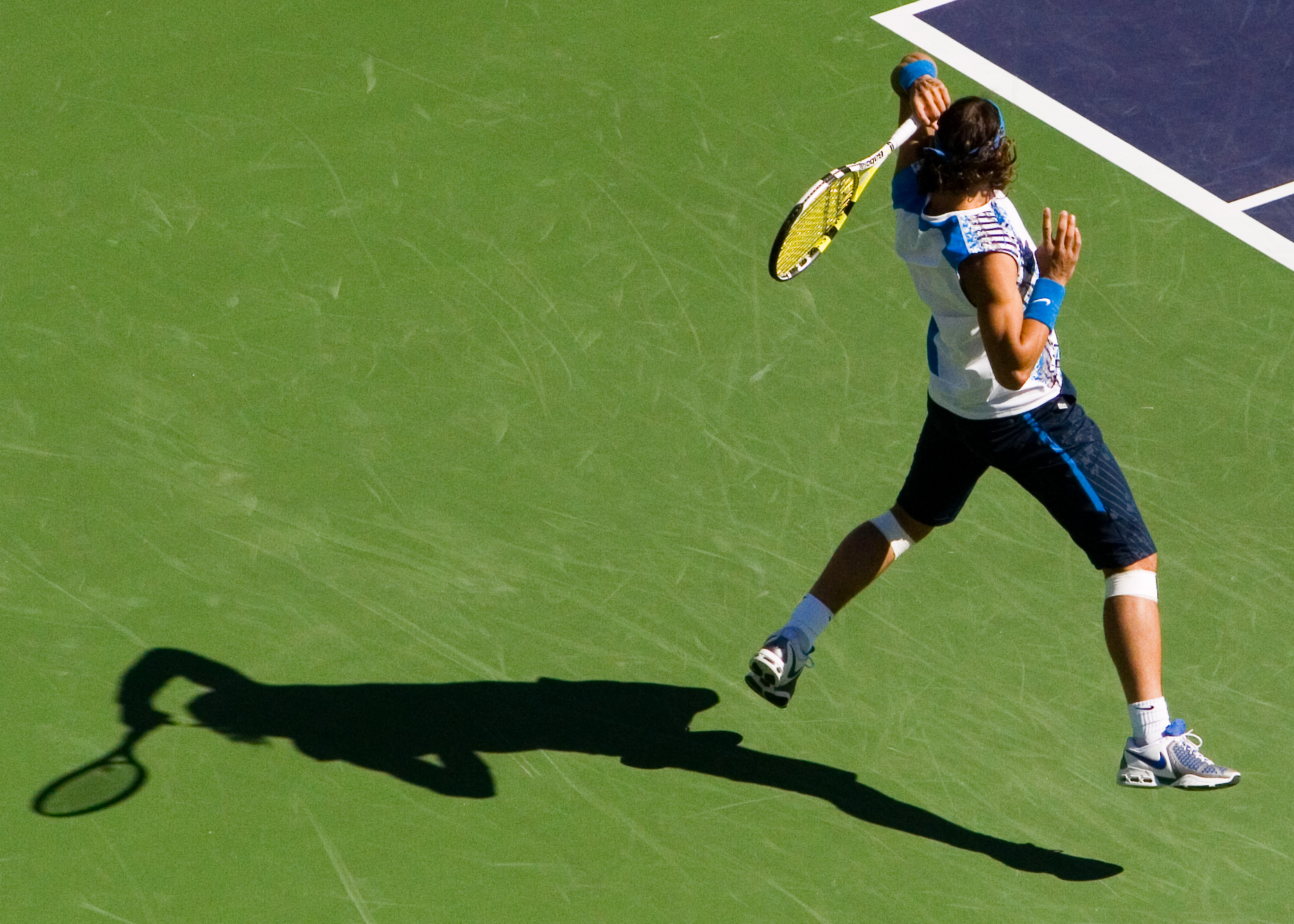 Rafael Nadal in his 6-3, 6-3 victory over Santiago Giraldo of Columbia during the second round of the 2008 Pacific Life Open.